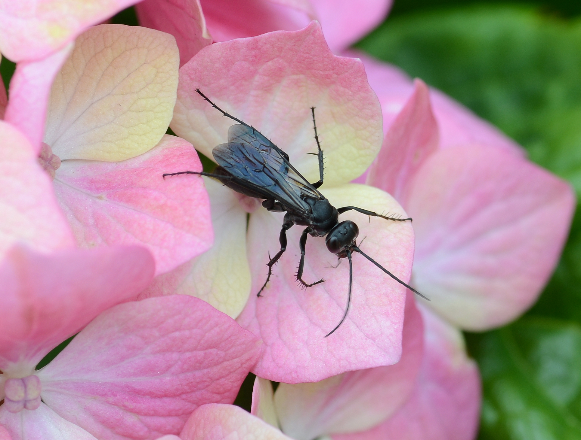 Spider hunting wasp (cf. Anoplius nigerrimus)